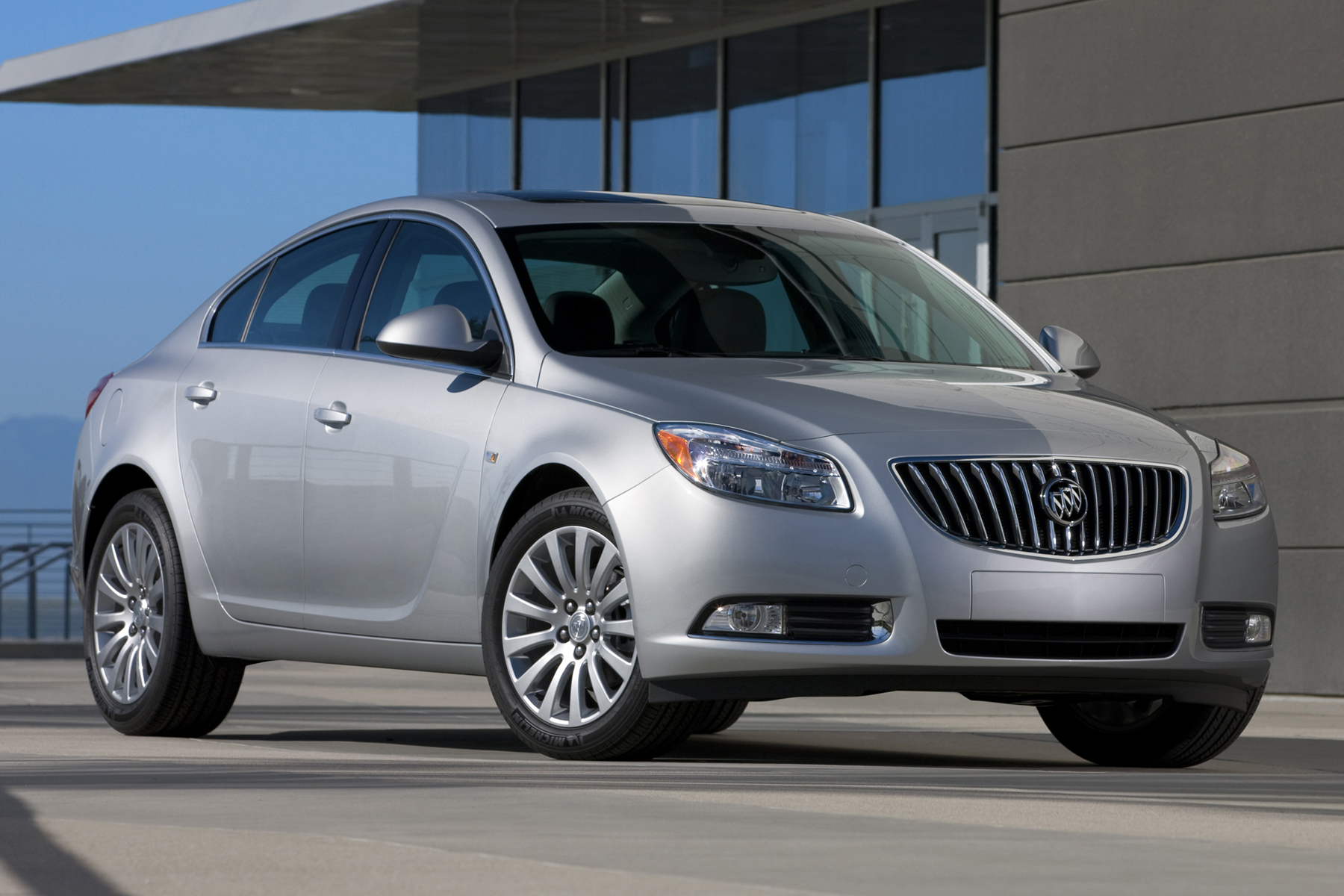 A North American specification 2011 Buick Regal CXL shown in "Quicksilver Metallic" paint. General Motors manufactured the pictured vehicle in Rüsselsheim, Germany.